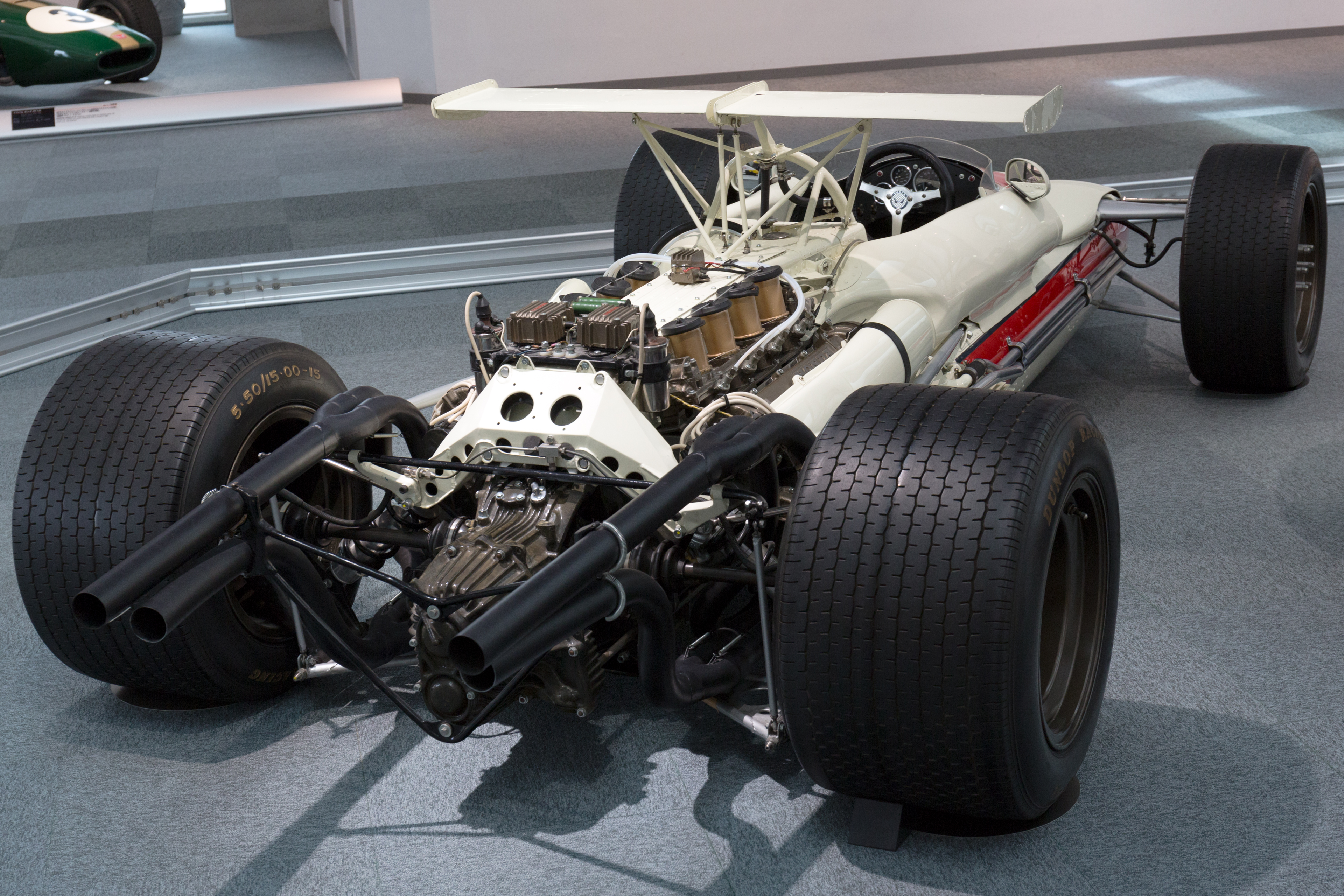 1968 Honda RA302